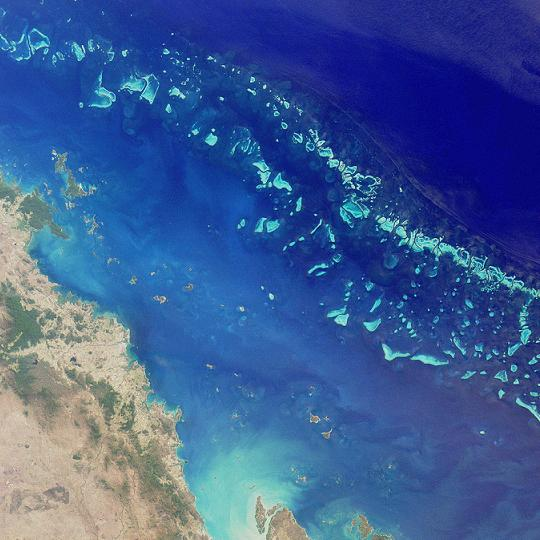 Satelite image of the Great Barrier Reef